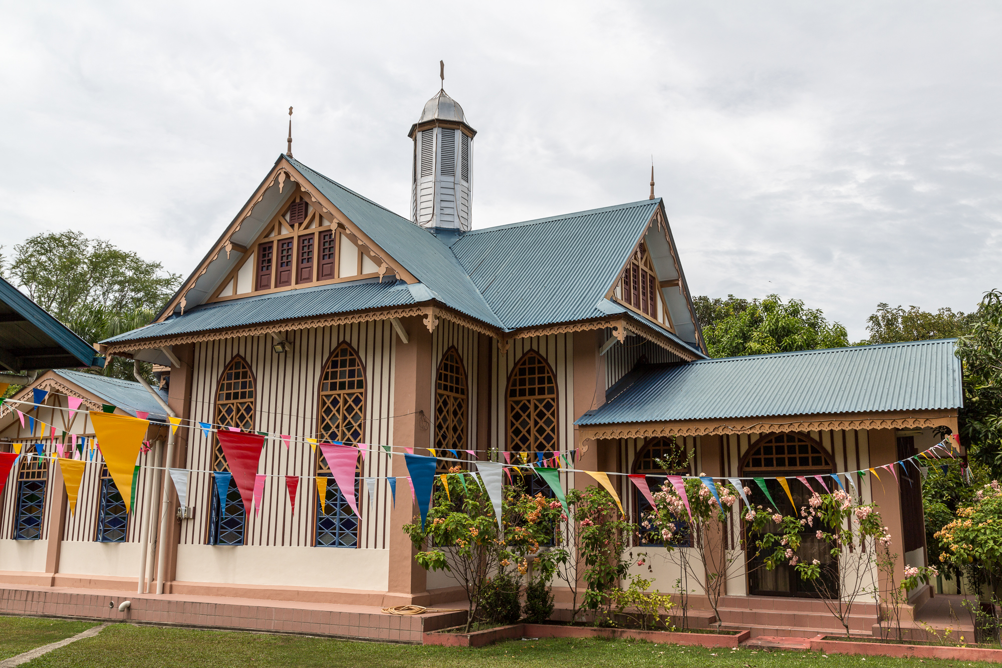 Kota Kinabalu (Sabah): Gurudwara Sahib (Sikh Temple), built in 1924